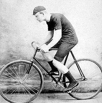 Josef Rosemeyer, Lingen, 1896 year.